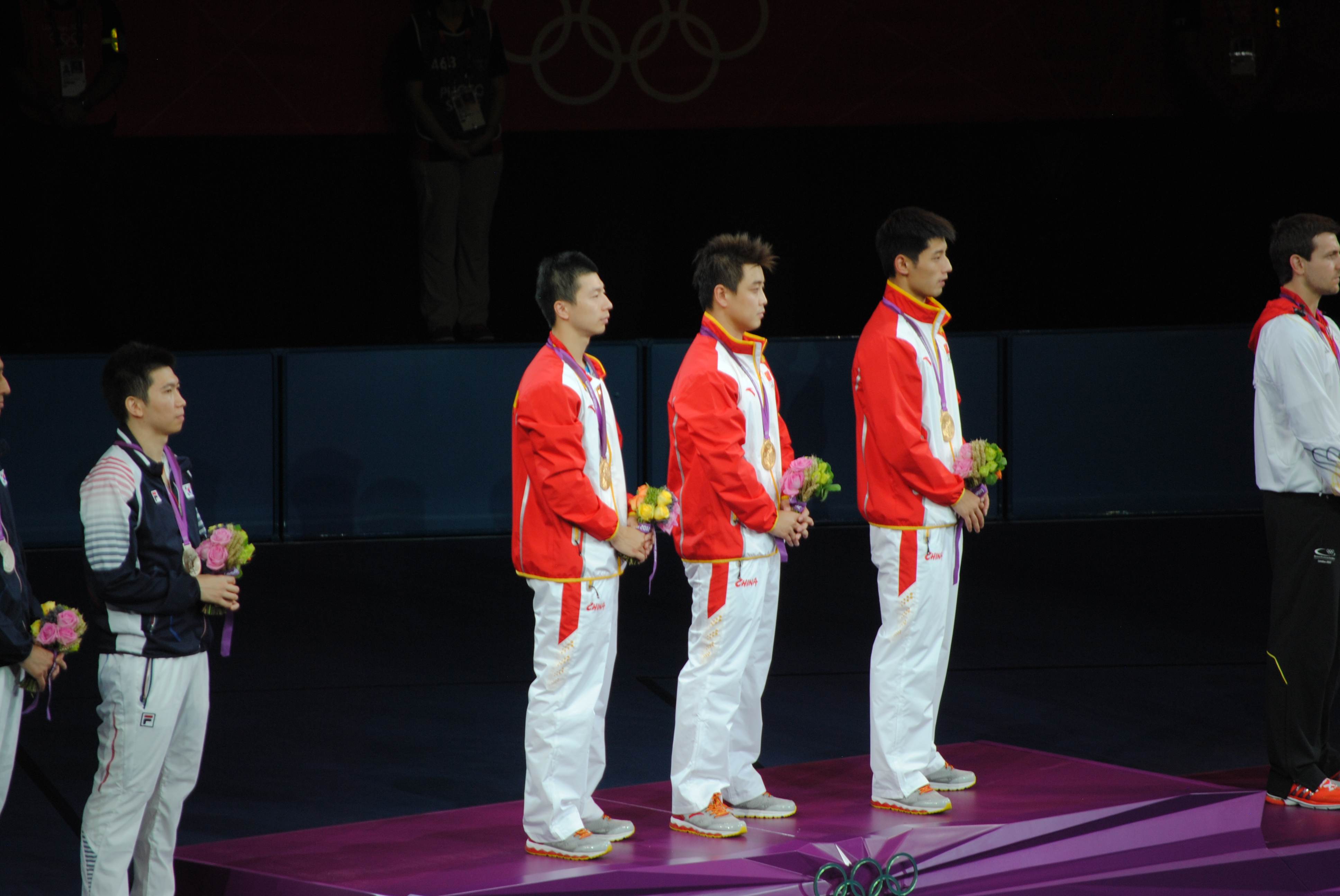 Gold Medalists - China